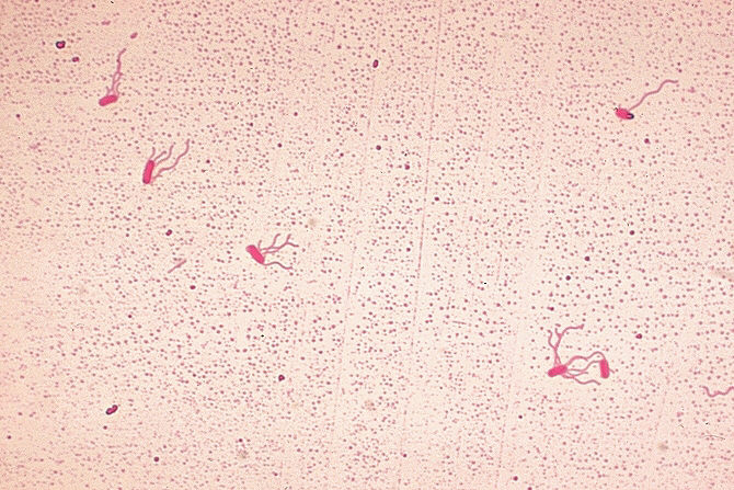 Alcaligenes faecalis. Flagella stain.